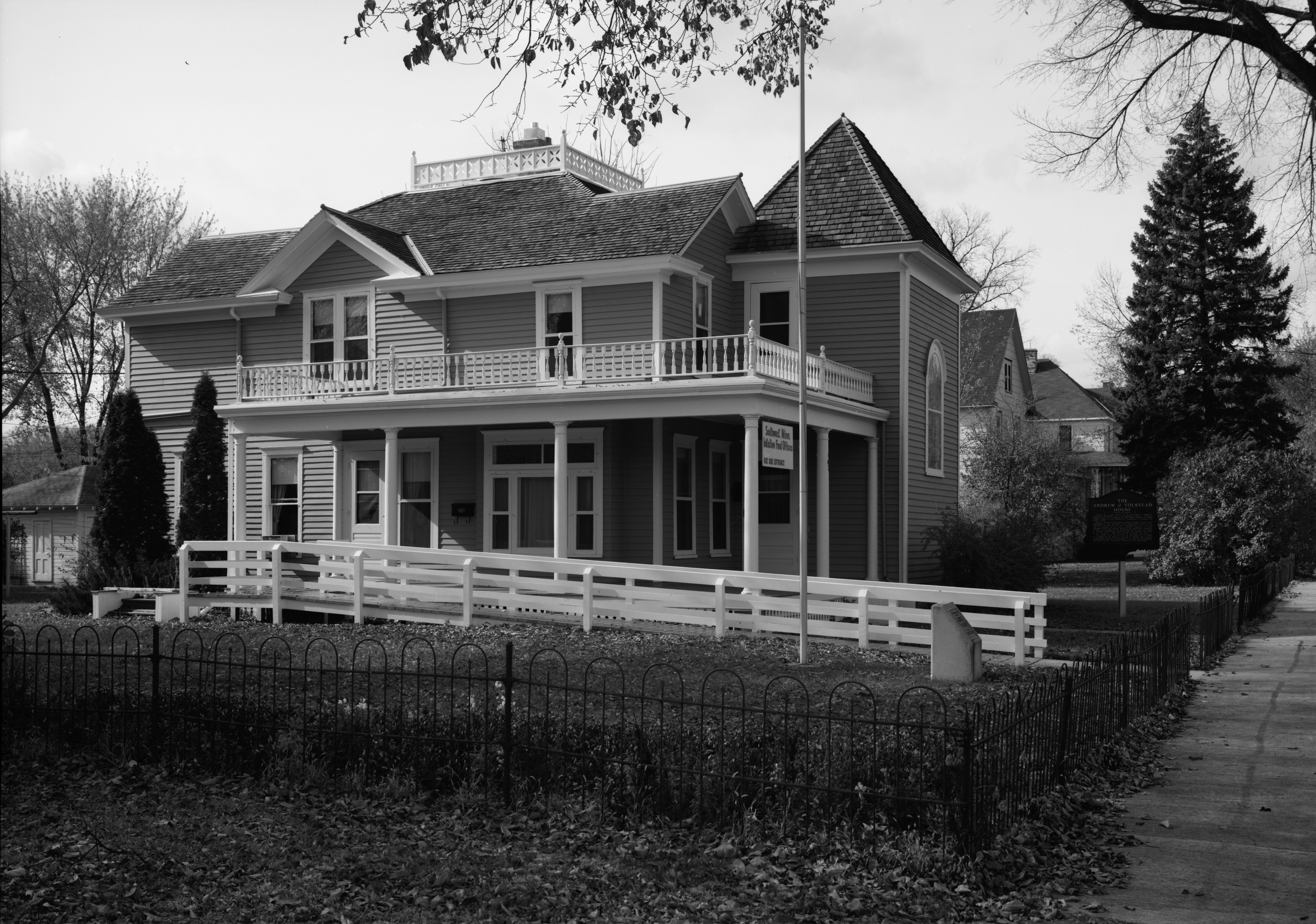 Andrew John Volstead House, 163 Ninth Avenue, Granite Falls, Yellow Medicine County, MN. Category:Images of Minnesota